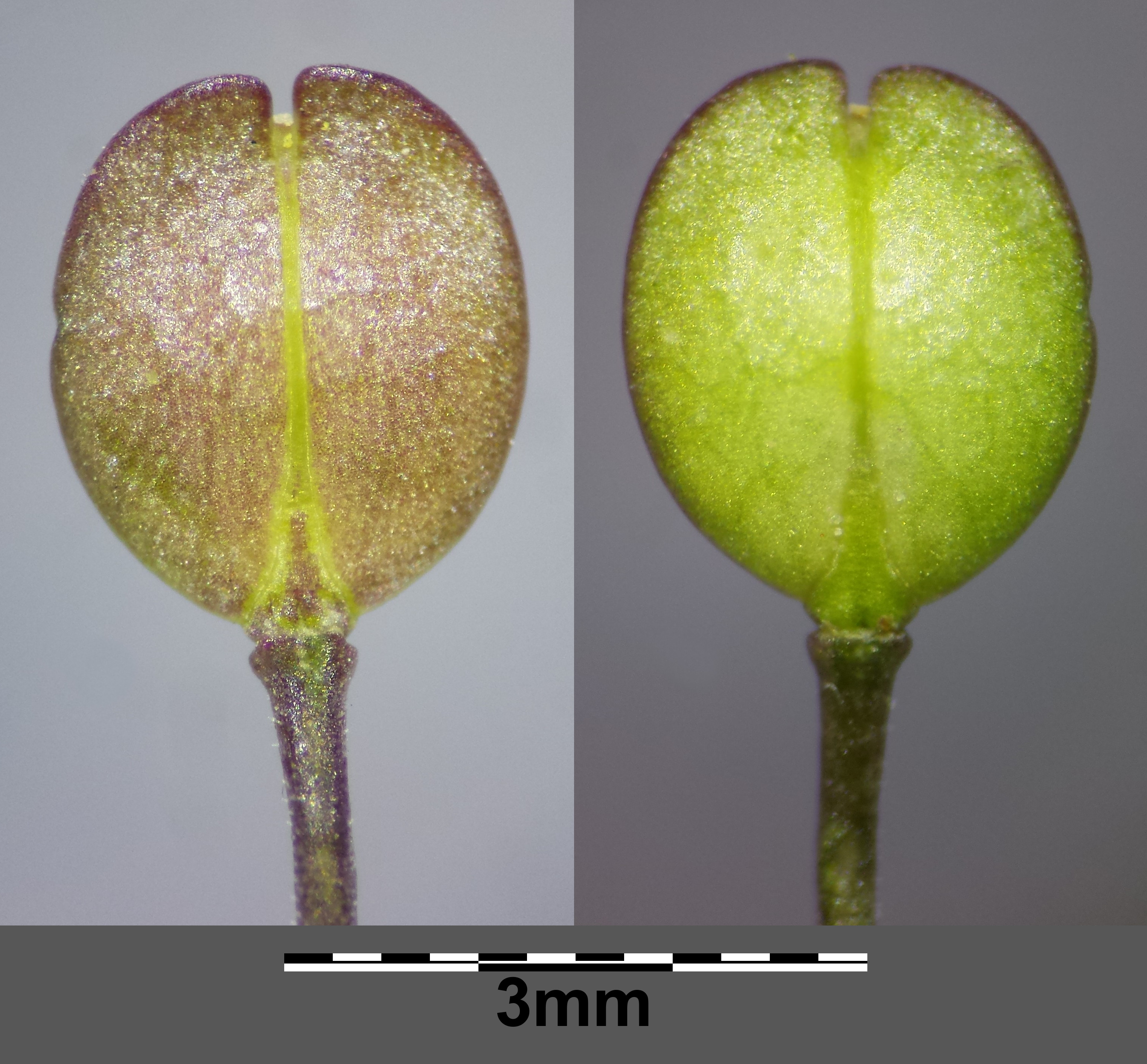 Silique Taxonym: Lepidium densiflorum ss Fischer et al. EfÖLS 2008 ISBN 978-3-85474-187-9 Location: Korneuburg rail station, district Korneuburg, Lower Austria - ca. 170 m a.s.l. Habitat: ruderal area